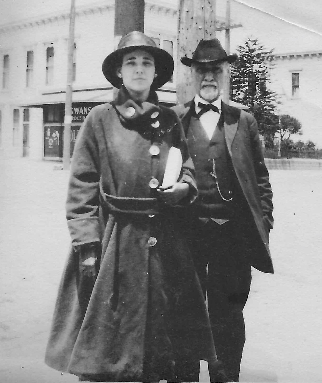 This is a family picture of Agnes Jean Helm-Cox with her grandfather Wiliiam Helm.